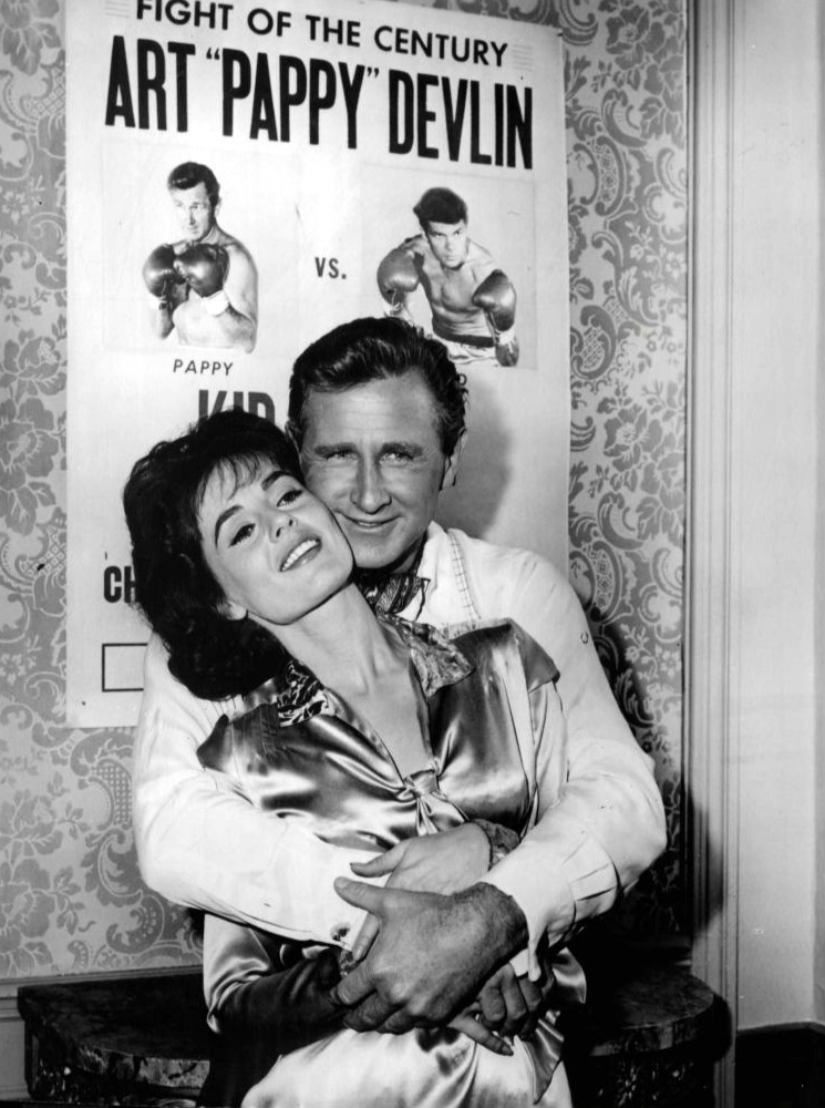 Photo of Lloyd Bridges and Mary Murphy from the television program The Lloyd Bridges Show. This episode is "My Daddy Can Beat Your Daddy", where Bridges, as an older prizefighter, gets into the ring with his own son as his opponent.